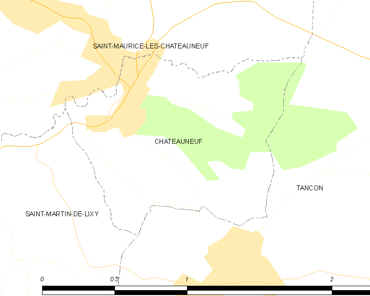 Map of French municipality